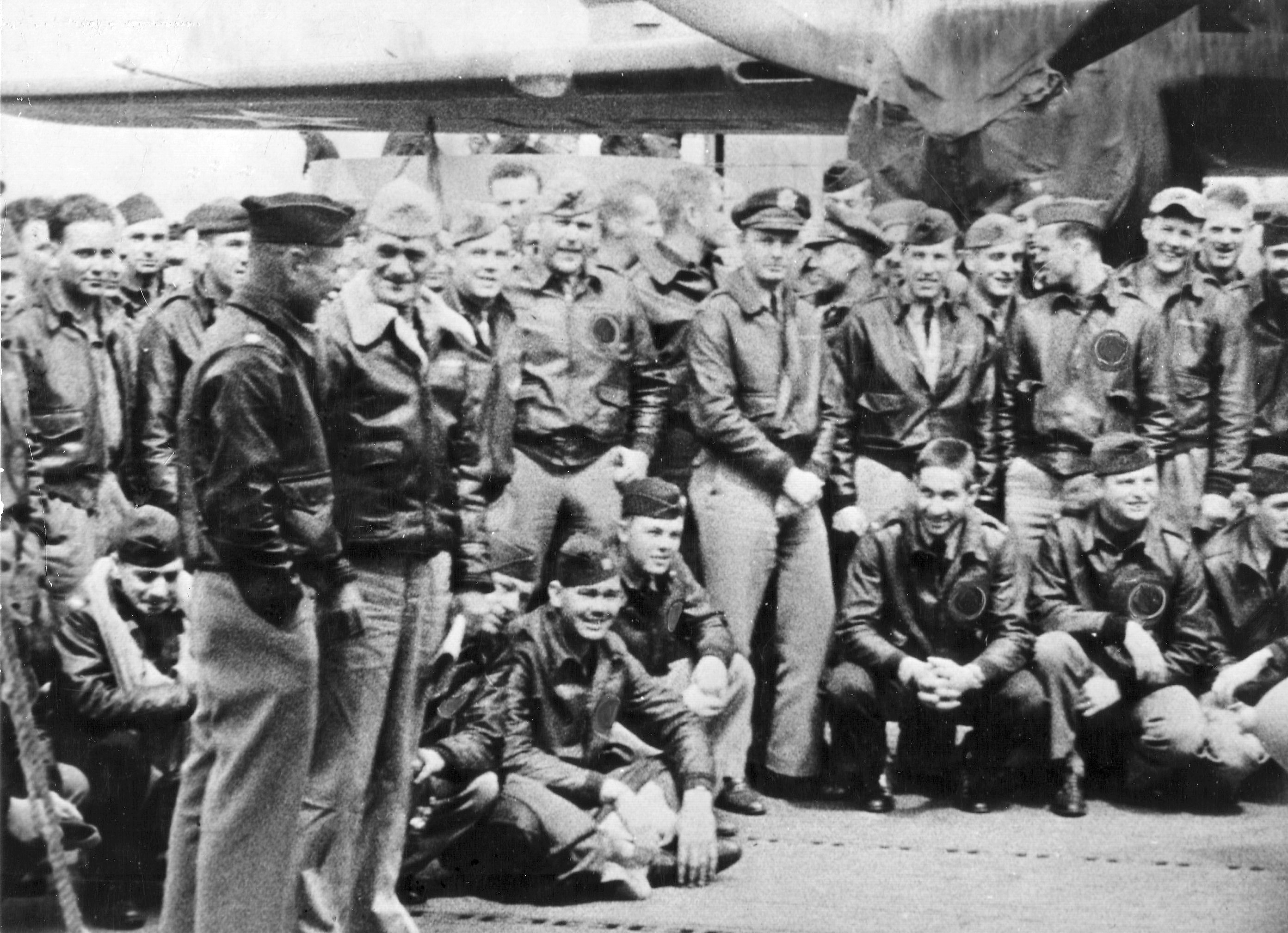 Orders in hand, Navy Capt. Marc A. Mitscher, skipper of the USS Hornet (CV-8) chats with Lt. Col. James Doolittle, leader of the Army Air Forces attack group. This group of fliers carried the battle of the Pacific to the heart of the Japanese empire with a daring raid on military targets in major Japanese cities. It was the result of coordination between the two services. The USS Hornet carried the 16 North American B-25 bombers to within take-off distances of the Japanese Islands. (U.S.Navy photo